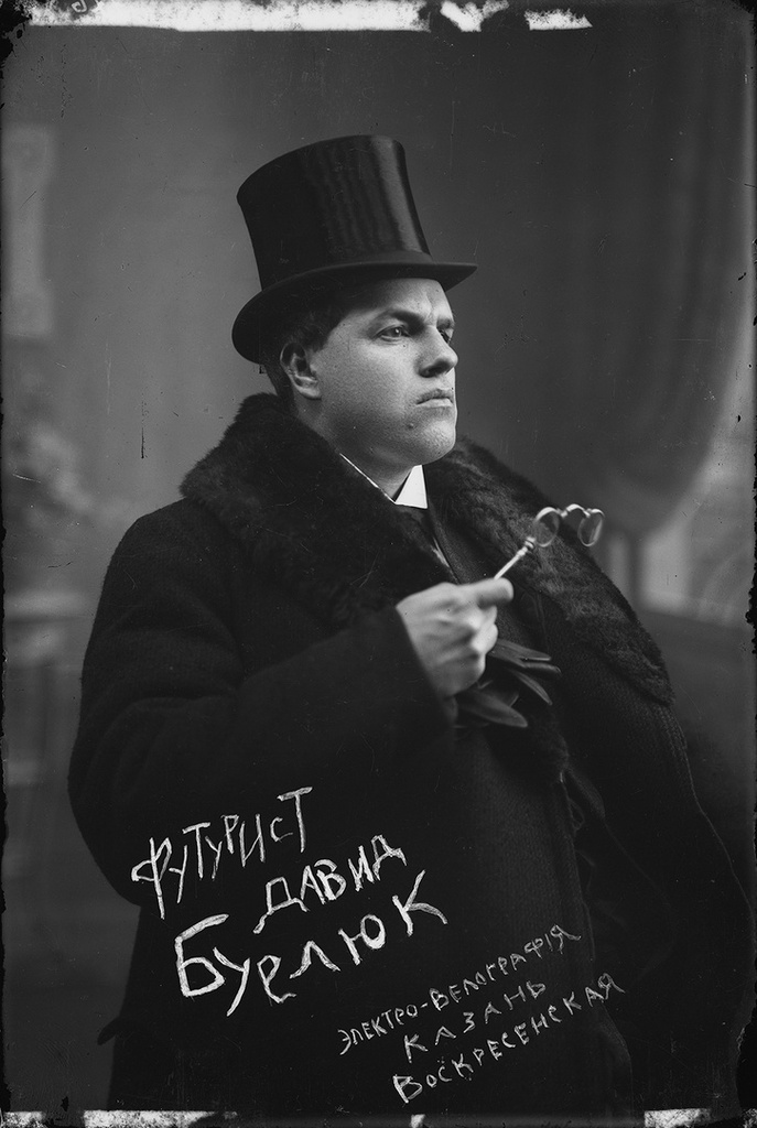 David Burliuk, Futurist, c. 1910s